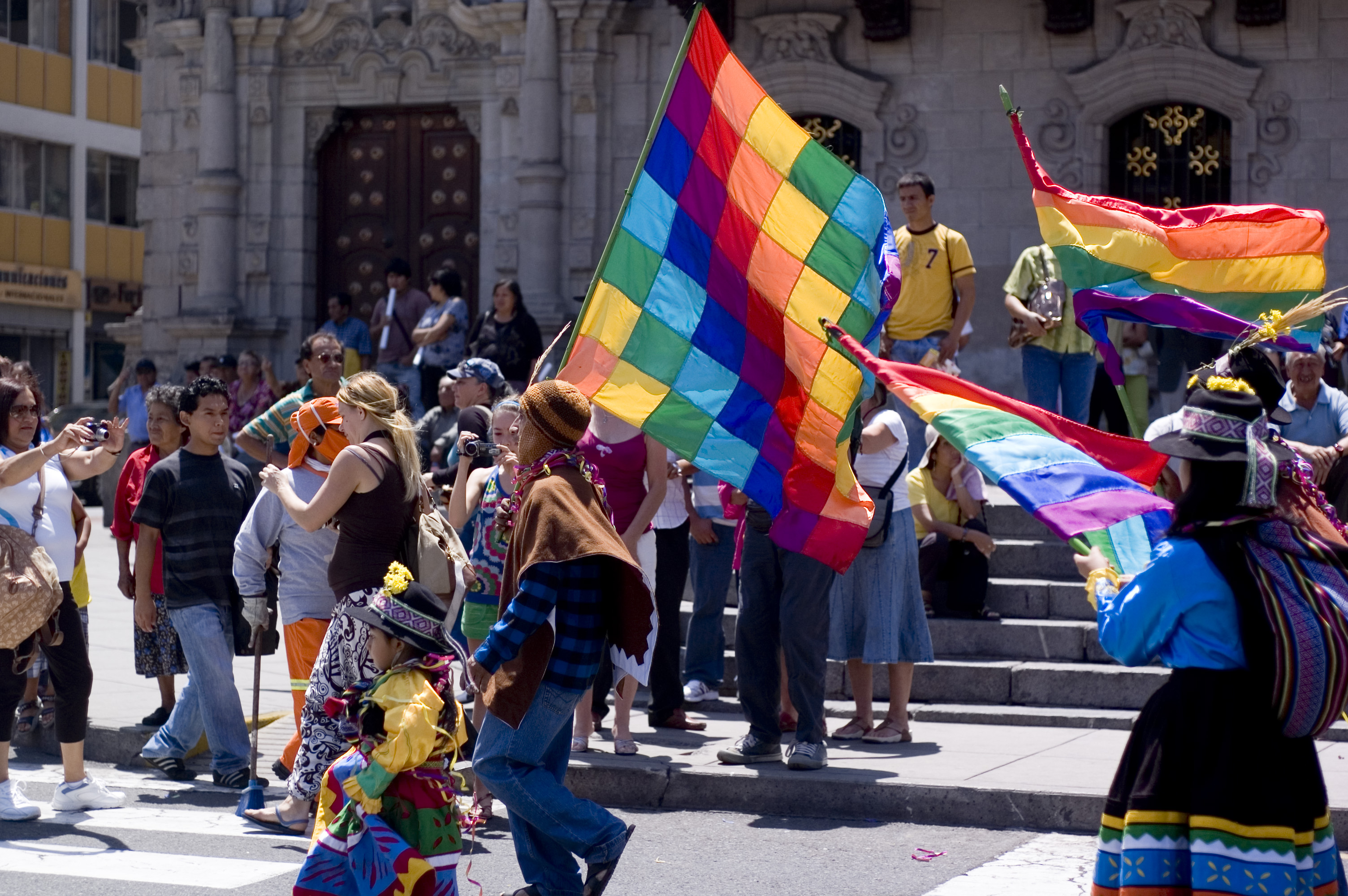 Wiphala, Inca rainbow flags on the Plaza de Armas in Lima, Peru.